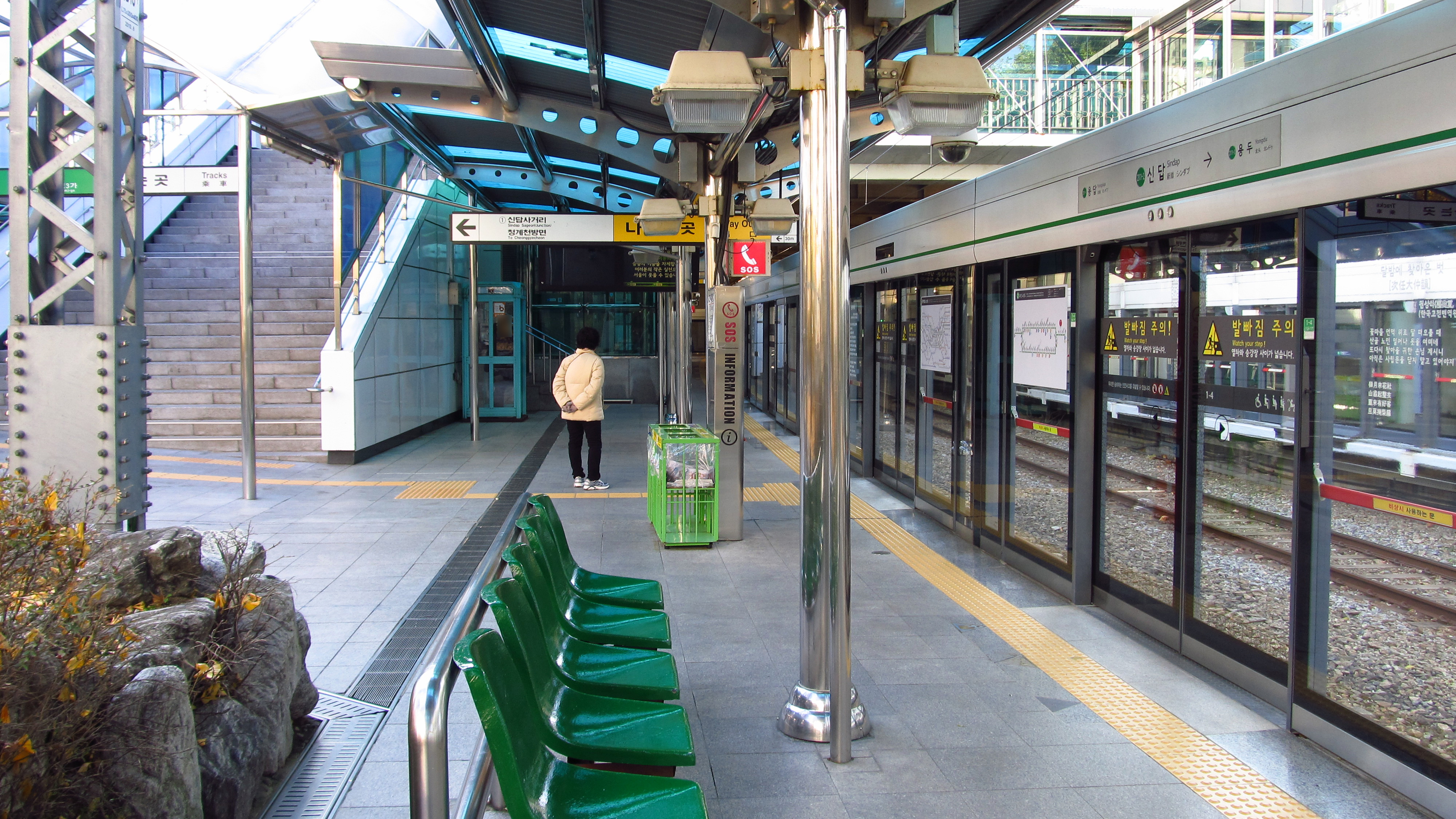 The platform at Sindap Station on Seoul Subway Line 2 in Seongdong-gu, Seoul, Republic of Korea(South Korea)